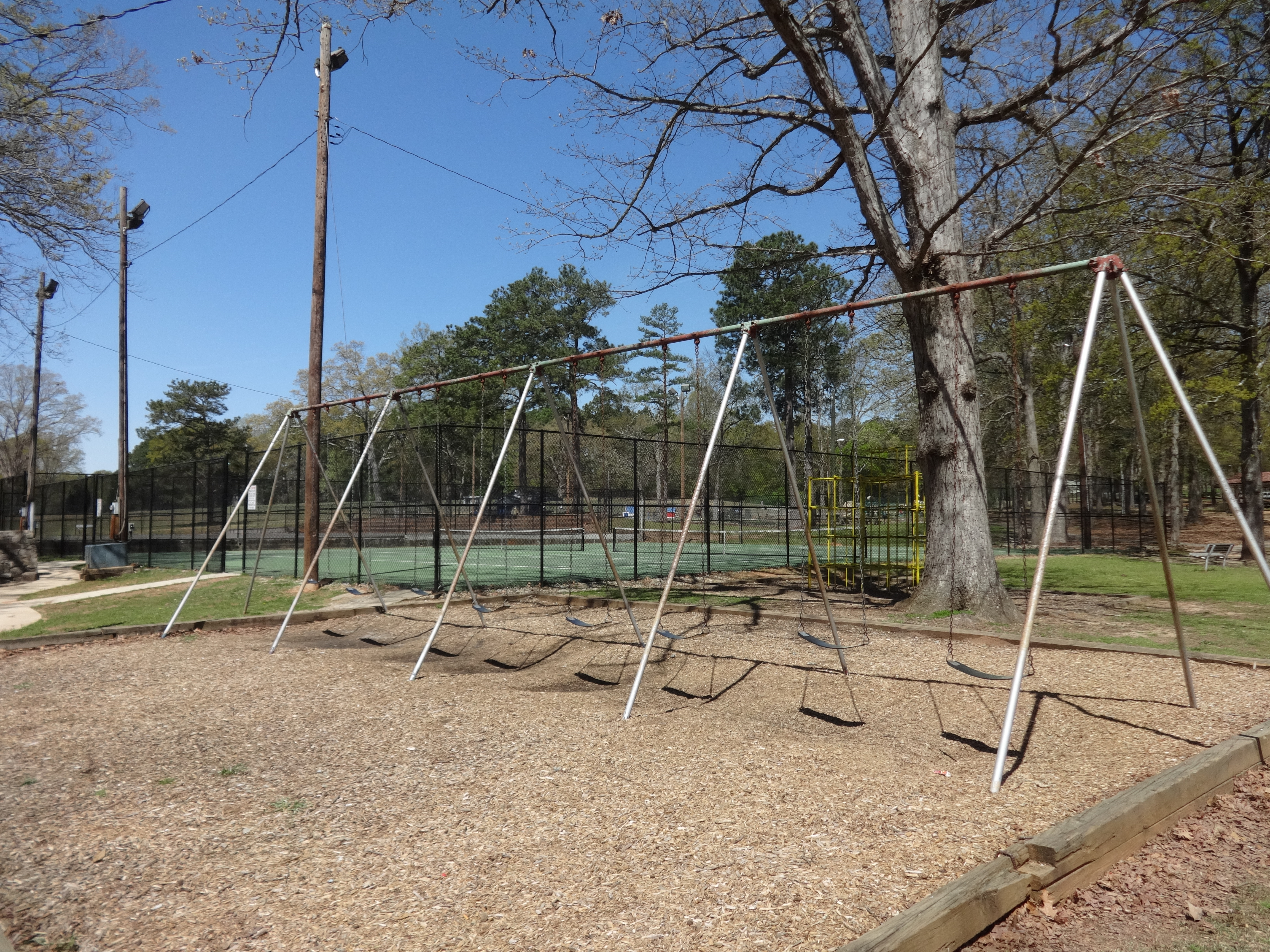 City Park, Griffin, Spalding County, Georgia